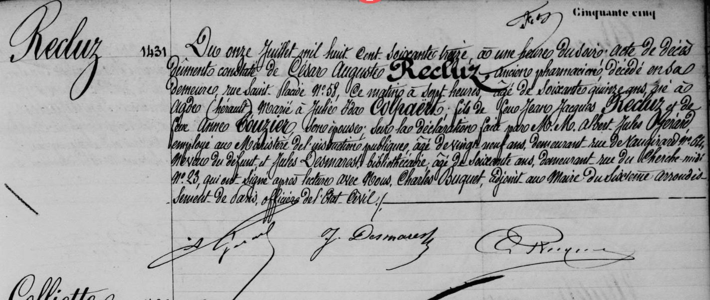 Death record of César Auguste Récluz